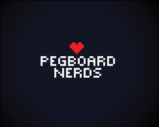 Logo of Electronica duo Pegboard Nerds.